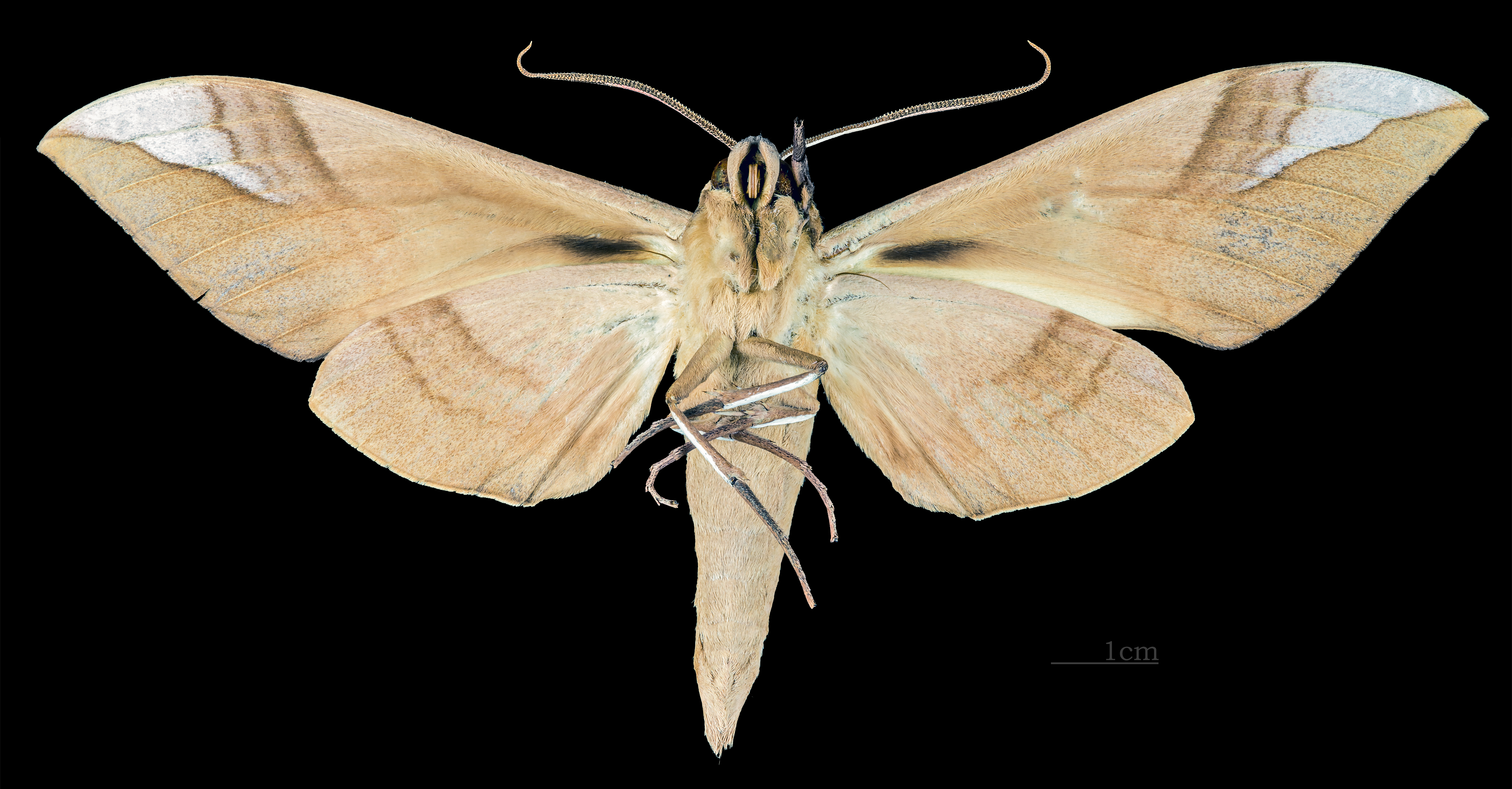 Clanis pratti - △ Ventral side Collection of the Mathematician Laurent Schwartz